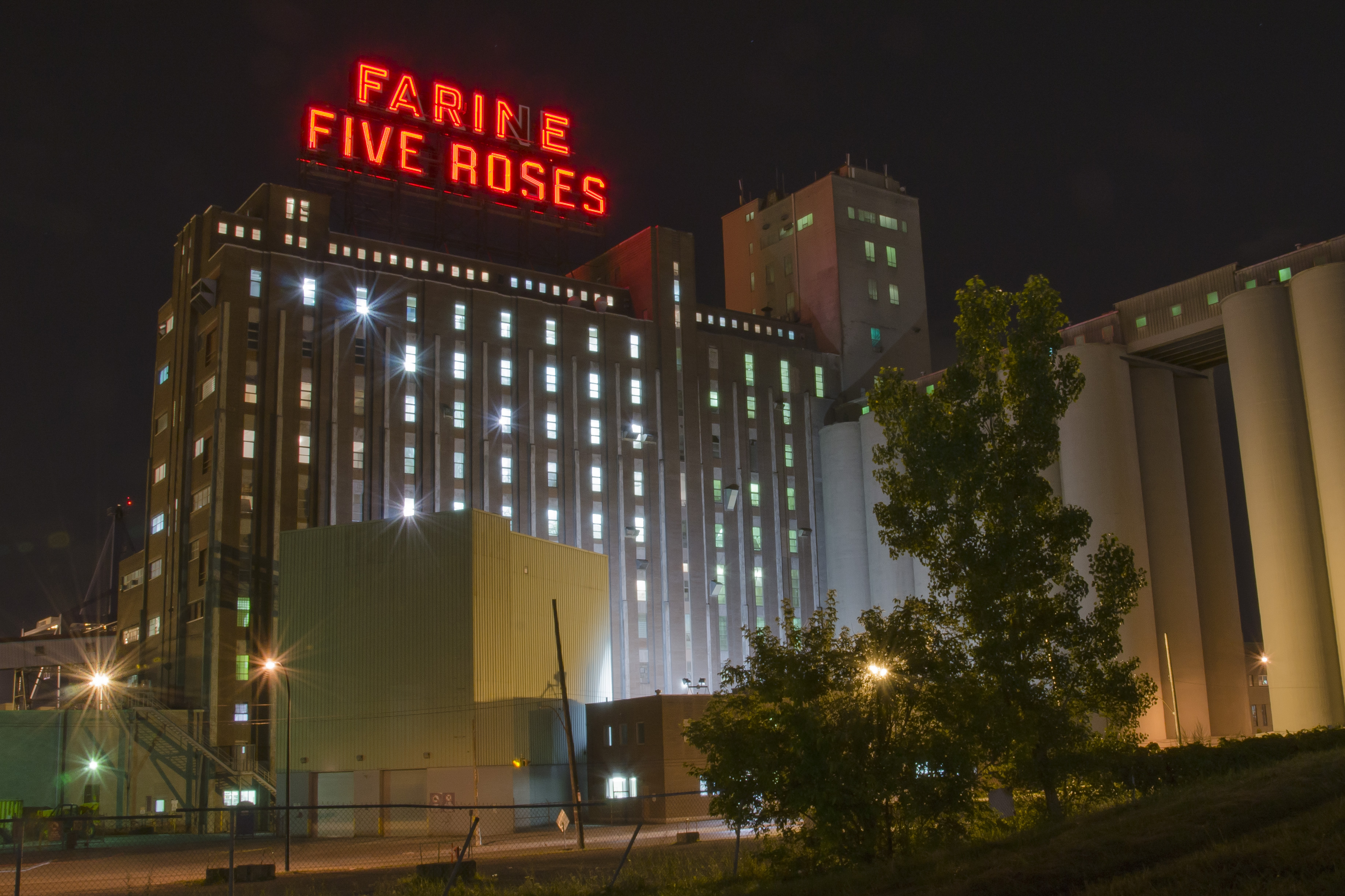 Five Rose Flour is a Canadian brand of flour originally owned and established by the Lake of the Woods Milling Company in 1888.